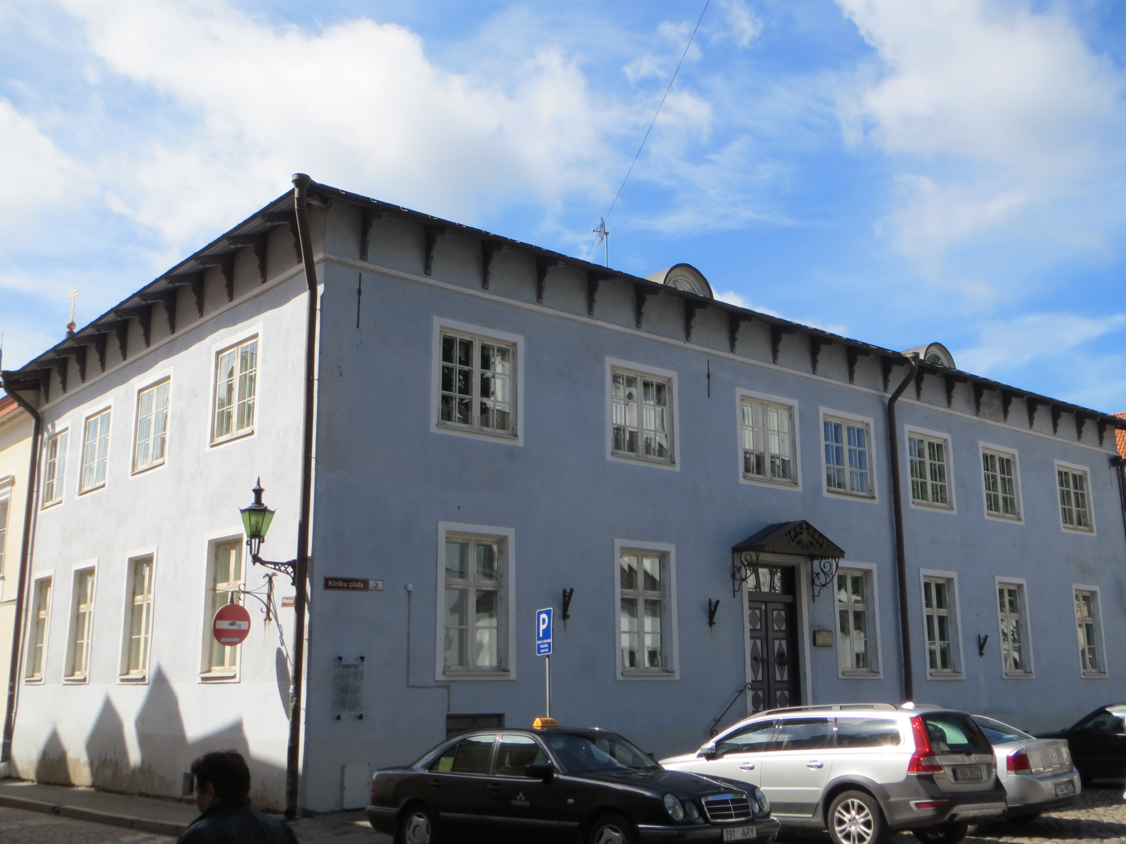 EELK Konsistorium building, Tallinn, 10130 Tallinn, Kiriku plats 3